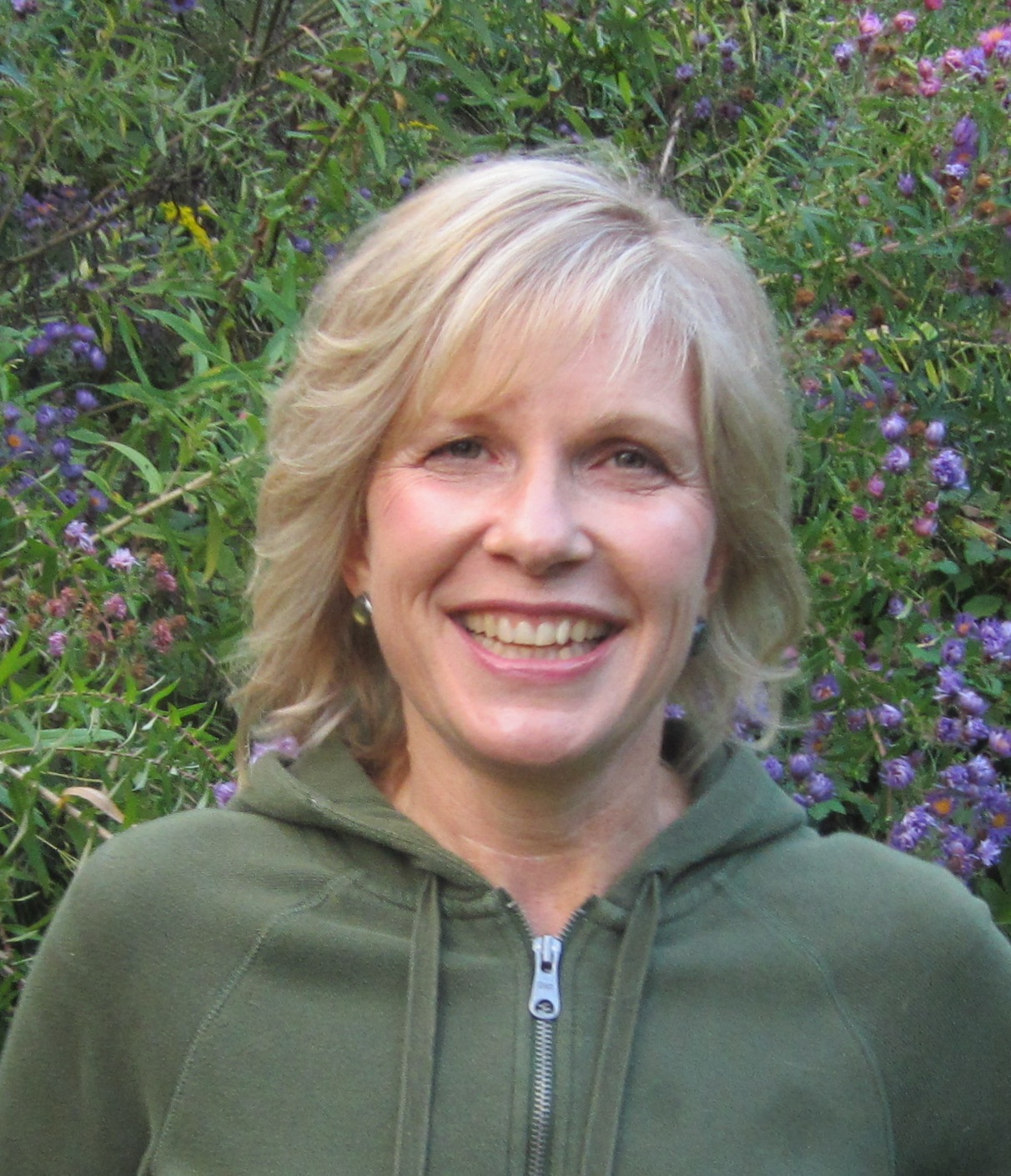 Karen Christensen, in her garden in Great Barrington, MA, September 2012.